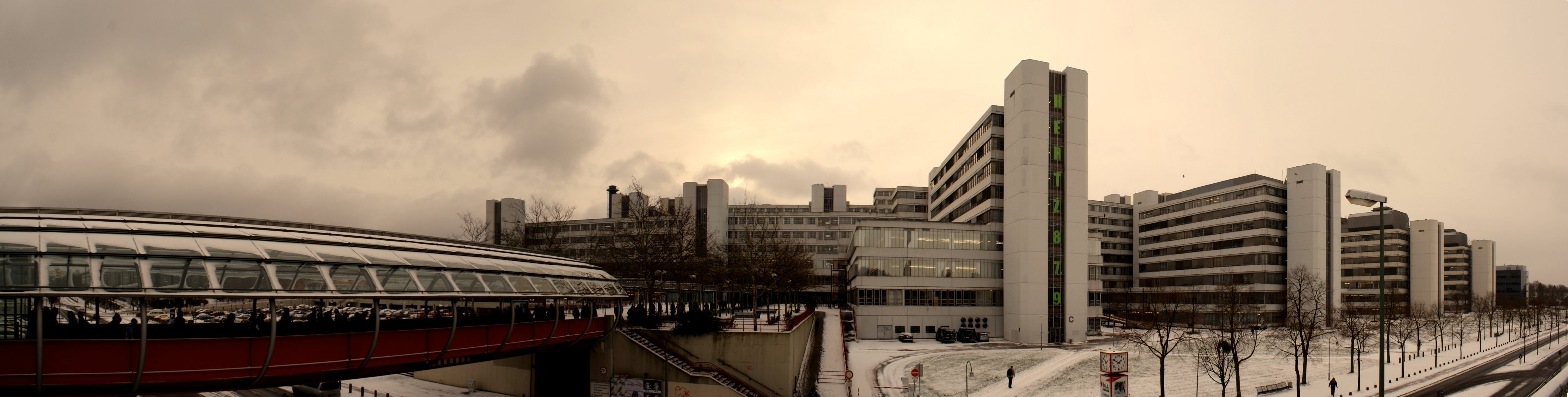 Panorama view of Bielefeld University shot from the northern parking lot.